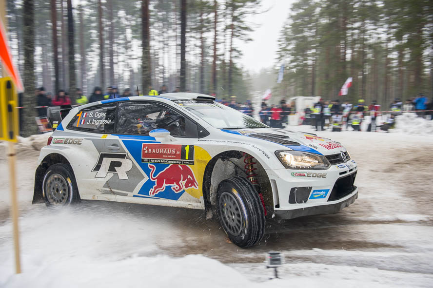 Rally Sweden 2014 Fredriksberg 1,Julien Ingrassia,Motorsport,Rally,Rally Sweden,Rallye,Rallye Schweden,SS9,Sebastien Ogier,VW Polo R WRC,Volkswagen Motorsport,Volkswagen Polo R WRC,WP9